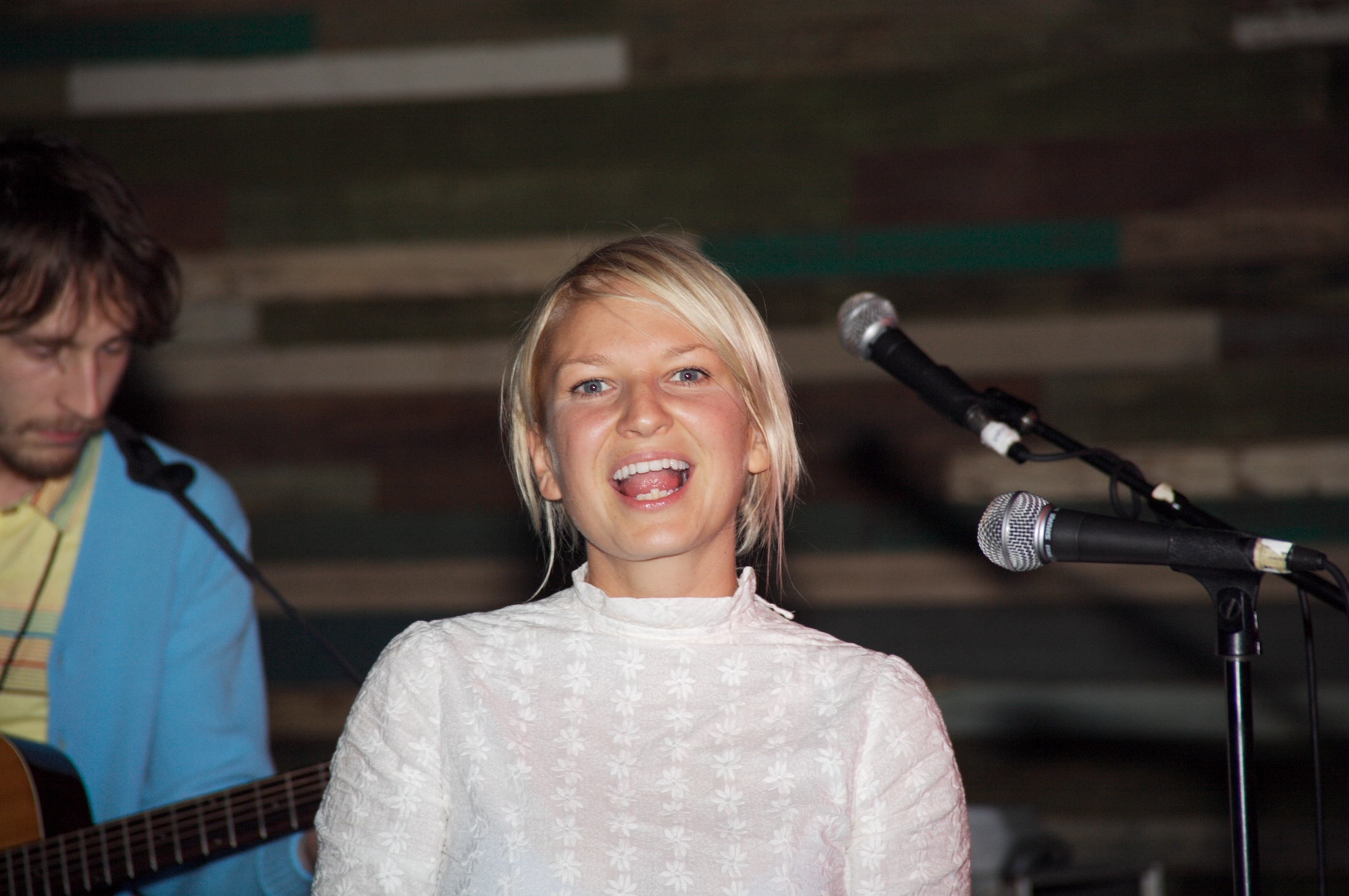 Australian musician Sia at The Parish (live music venue) in Austin, 2006